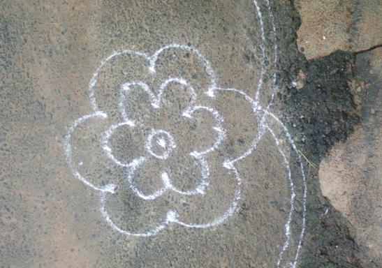 The traditional art of drawing rangoli in front of the house is very popular in India.